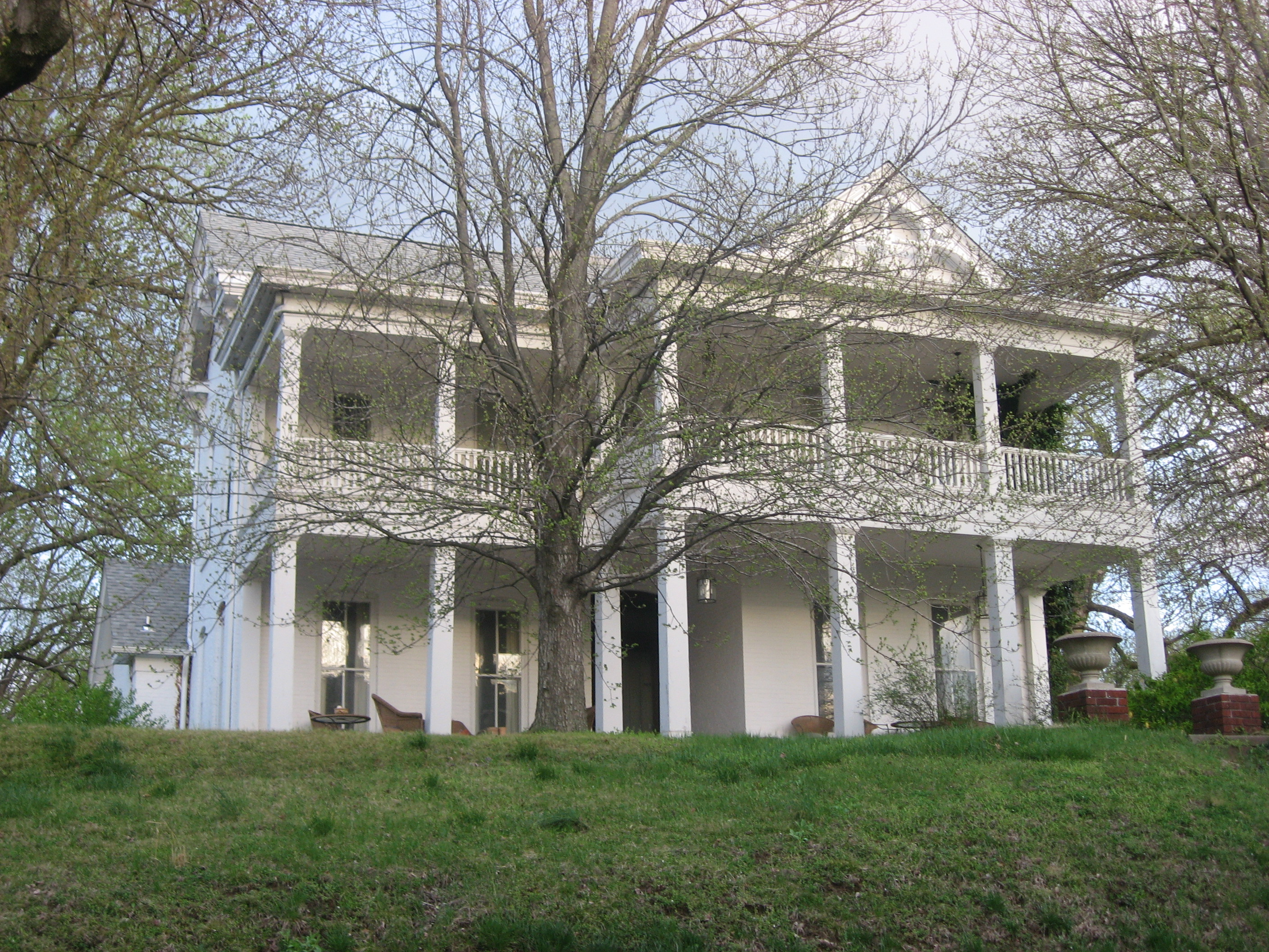 Front of the George Boardman Clark House, located at 6 S. Fountain Street in Cape Girardeau, Missouri, United States. Built in 1882, it is listed on the National Register of Historic Places, and it is part of a Register-listed historic district, the Courthouse-Seminary Neighborhood Historic District.